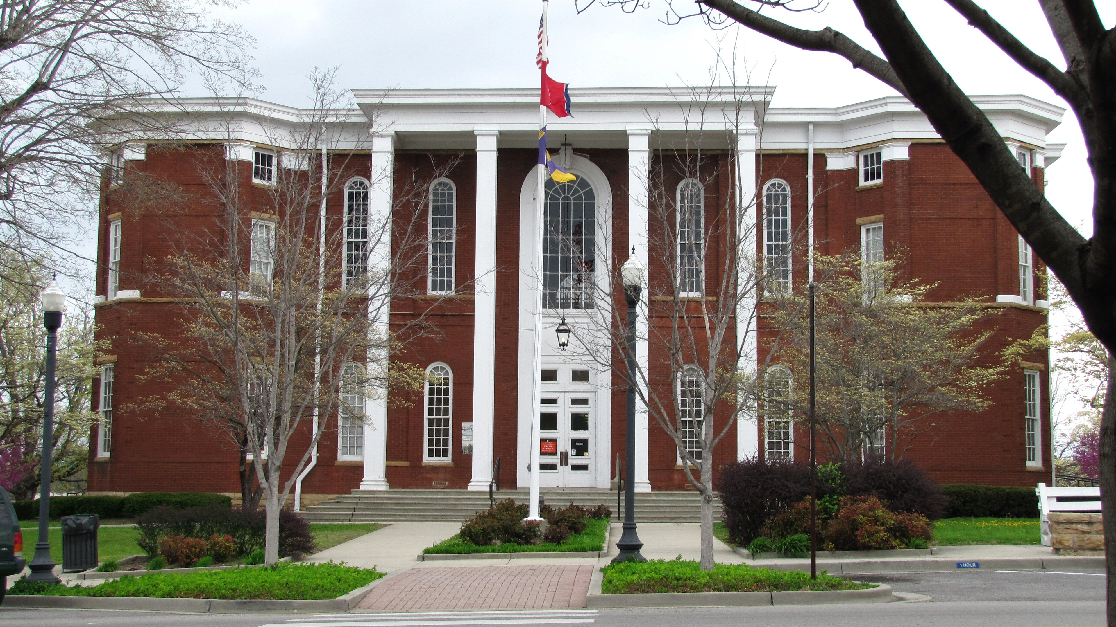 The Putnam County Courthouse in Cookeville, Tennessee, United States (south elevation).